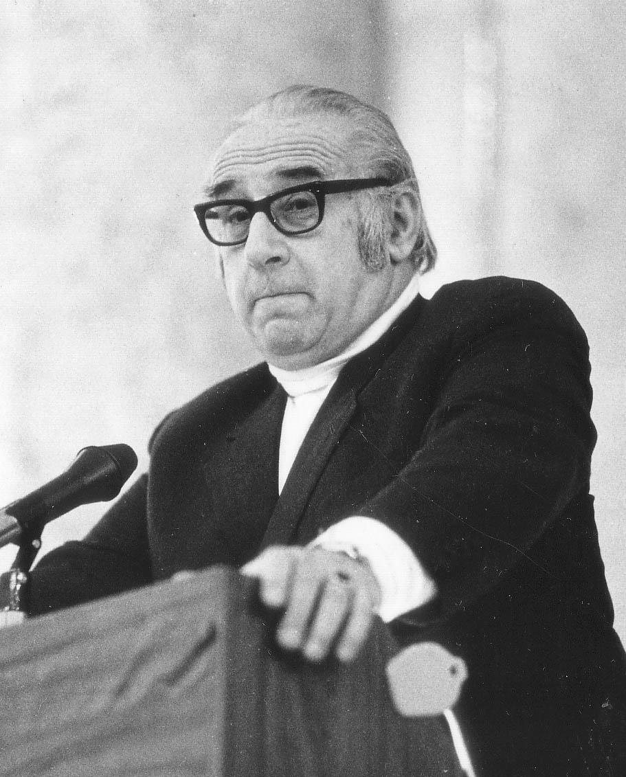 Austrian journalist and writer Hans Weigel.